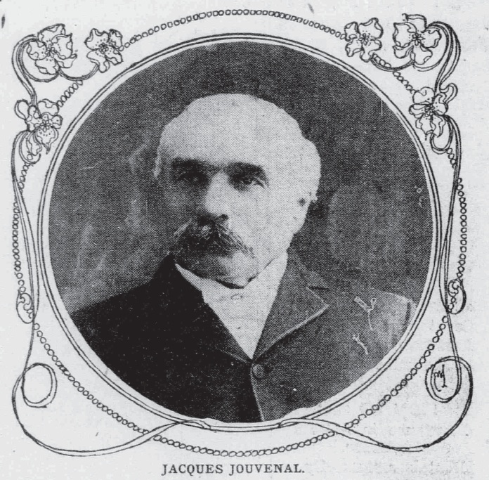 Photographic portrait of Jacque Jouvenal, sculptor.